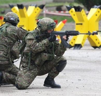 Slovak soldiers from 13th Mechanized Battalion